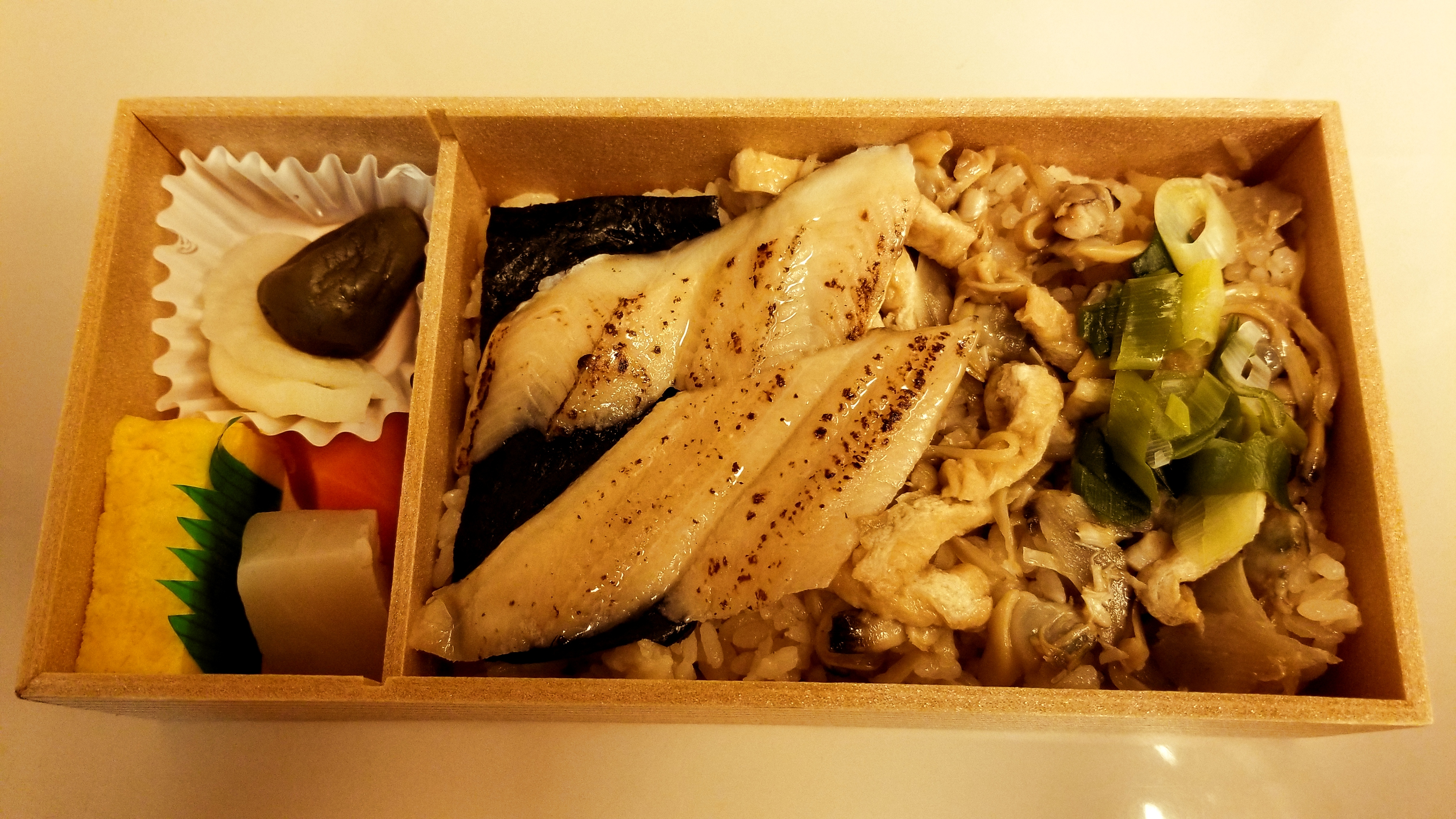 Fukagawa Meshi, an ekiben manufactured by NRE Daimasu and sold by Nippon Restaurant Enterprise, at Tokyo.